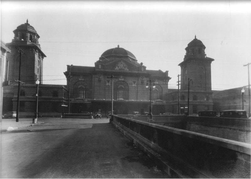 Birmingham Terminal Station during 1923.